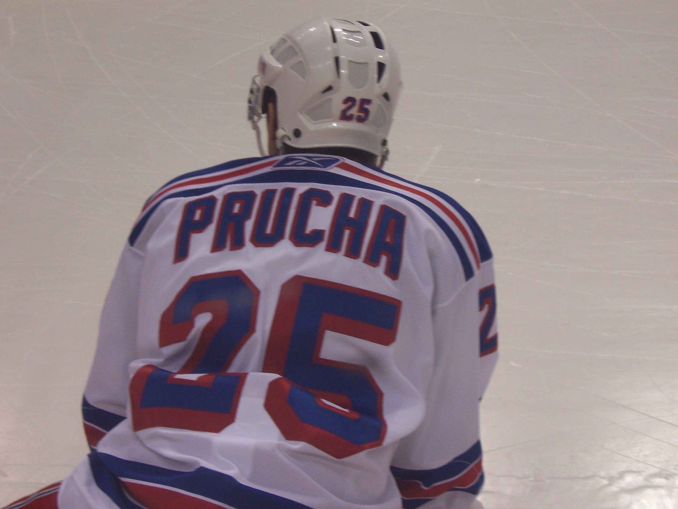 Petr Prucha warming up at the Wachovia Center in Philadelphia before playing the Philadelphia Flyers